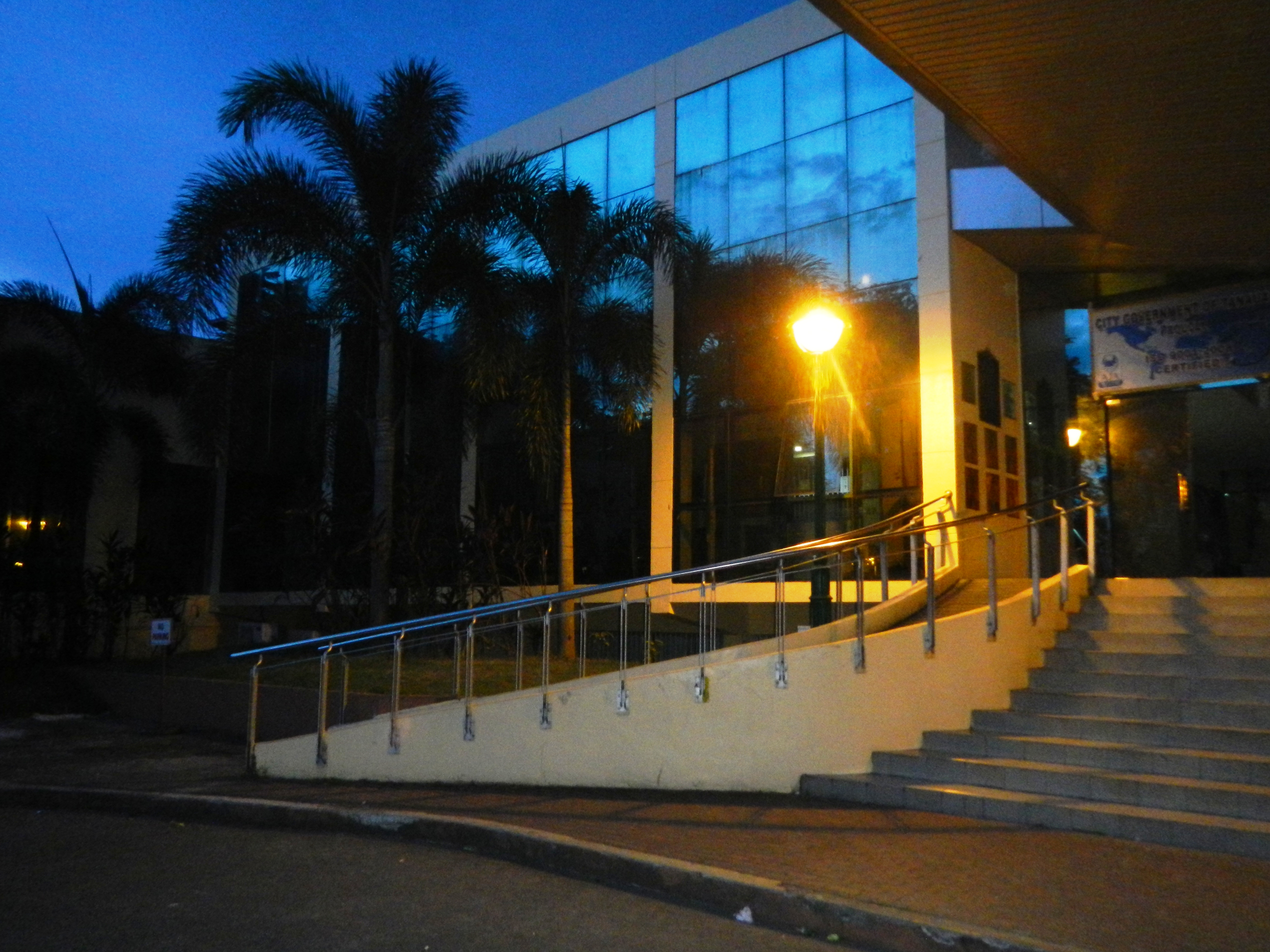 Night portrait of City Hall of -- Tanauan, Batangas [1] - The City of Tanauan is a first class city in the province of Batangas, Philippines. According to the latest census, it has a population of 152,393 inhabitants in 30, 354 households; incorporated as a city under Republic Act No. 9005, signed on February 2, 2001, and ratified on March 10, 2001. [2] Coordinates: 14°5'28"N 121°5'51"E [3] Geographical location: Batangas, Region 4, Philippines, Asia Geographical coordinates: 14° 4' 58" North, 121° 9' 2" East This place is situated in Batangas, Region 4, Philippines, its geographical coordinates are 14° 4' 58" North, 121° 9' 2" East and its original name (with diacritics) is Tanauan. Website